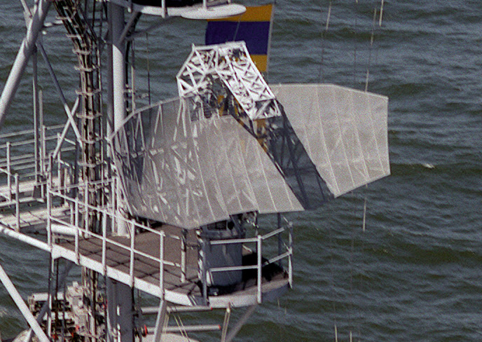 Cropped to focus on SPS-40 antenna. An amidships view of the antenna rigging on the mast of the amphibious transport dock USS TRENTON (LPD-14), including the SPS-10F surface search and SPS-40C air search radar antennas.